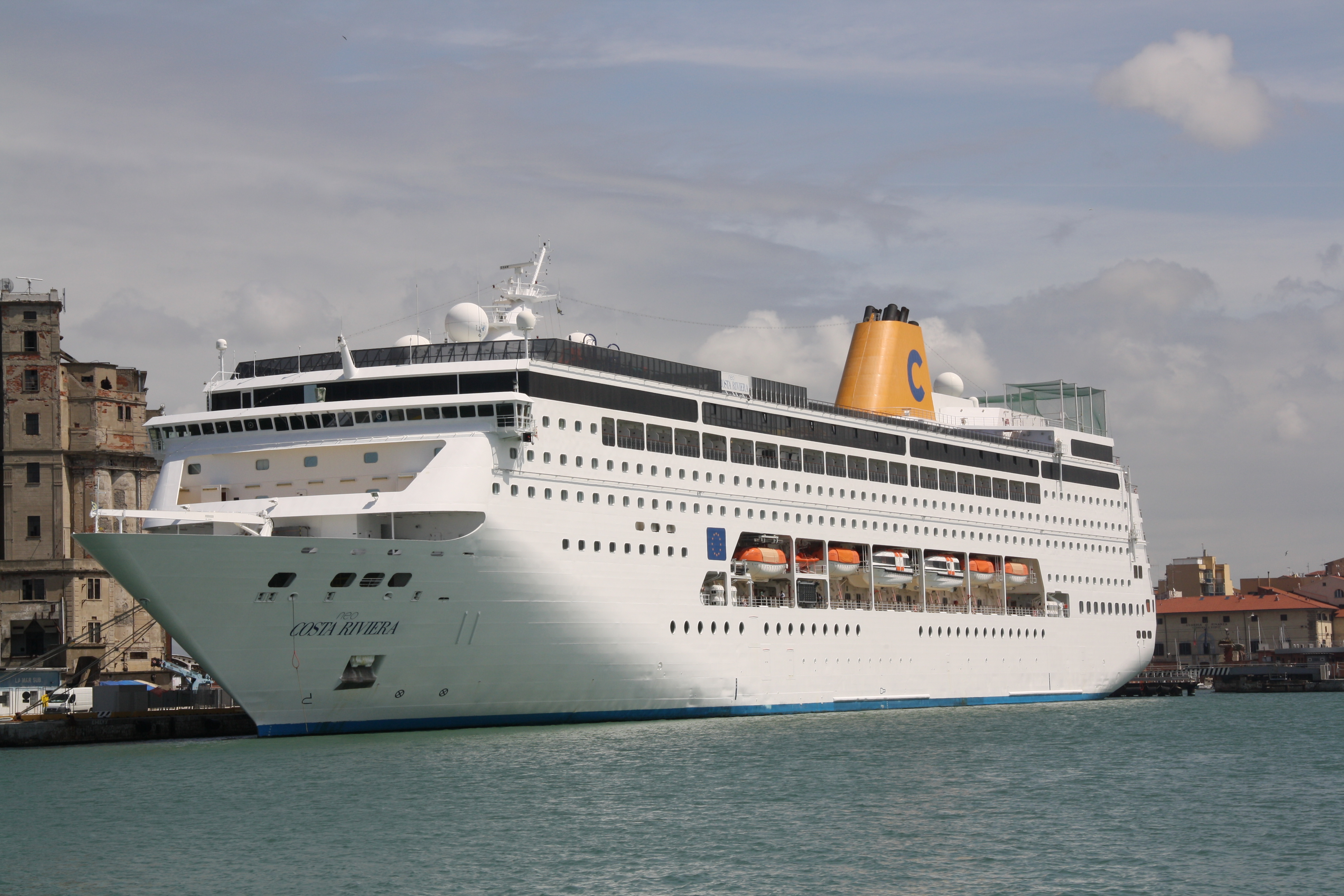 Italy Shipowner: Carnival Corporation & plc Operator: Costa Crociere IMO: 9172777 MMSI: 247325300 Call sign: IBDU Type: Cruise ship Year of construction: 1999 Builder: Chantiers de l’Atlantique Port of registry: Genova Gross tonnage: 48,200 t Length overall: 216 m Breadth: 28.8 m Draught: 5 m Speed: 19.5 knots Passengers: 1700 Crew: 670